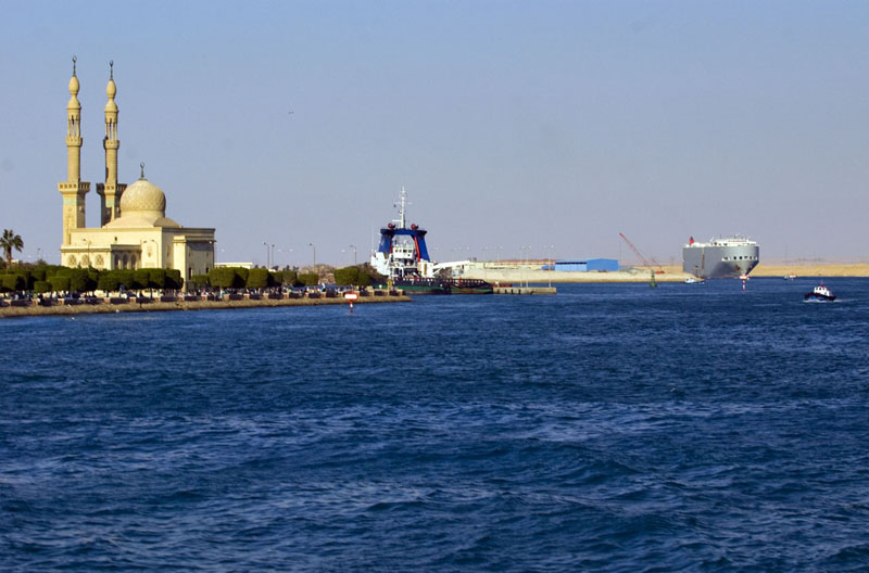 Southern exit of the Suez Canal; Port Suez.